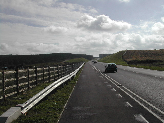 Mansfield By-pass. The MARR road - Mansfield and Ashfield Regeneration Route opened in 2005, designated as A617 and known as Sherwood Way. Image was taken with Sutton in Ashfield to rear of camera position looking East towards Derby Road and Rainworth beyond with Cauldwell Dam and Woods to left